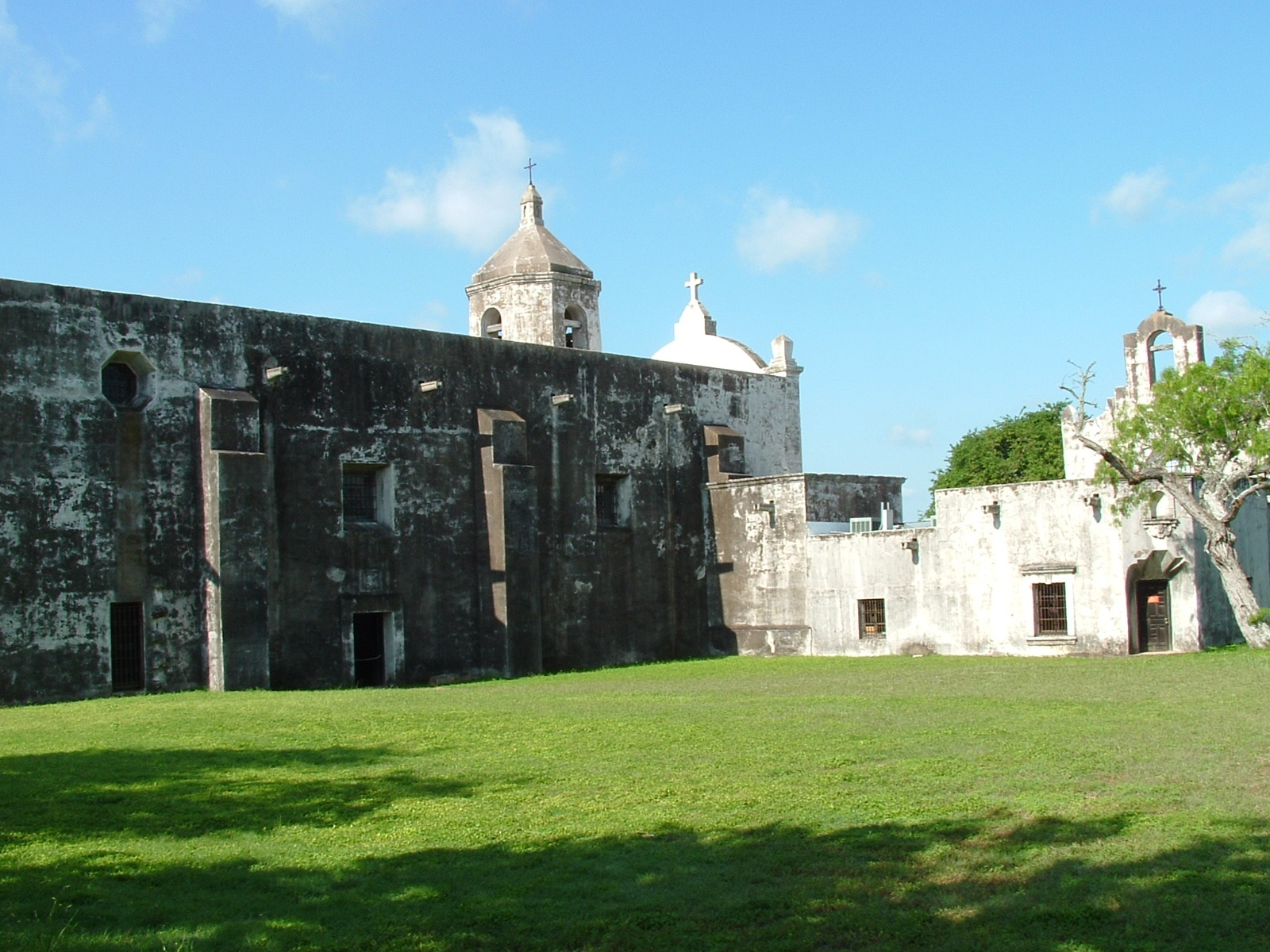 Mission Nuestro Señora del Espíritu Santo de Zúñiga, Goliad, Texas, USA